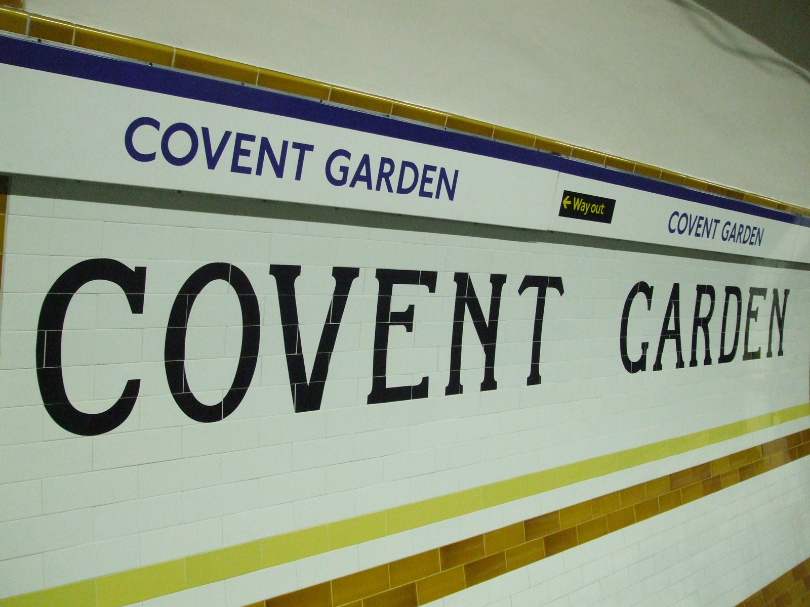 Covent Garden tube station decorative tiling, recently restored after refurbishment